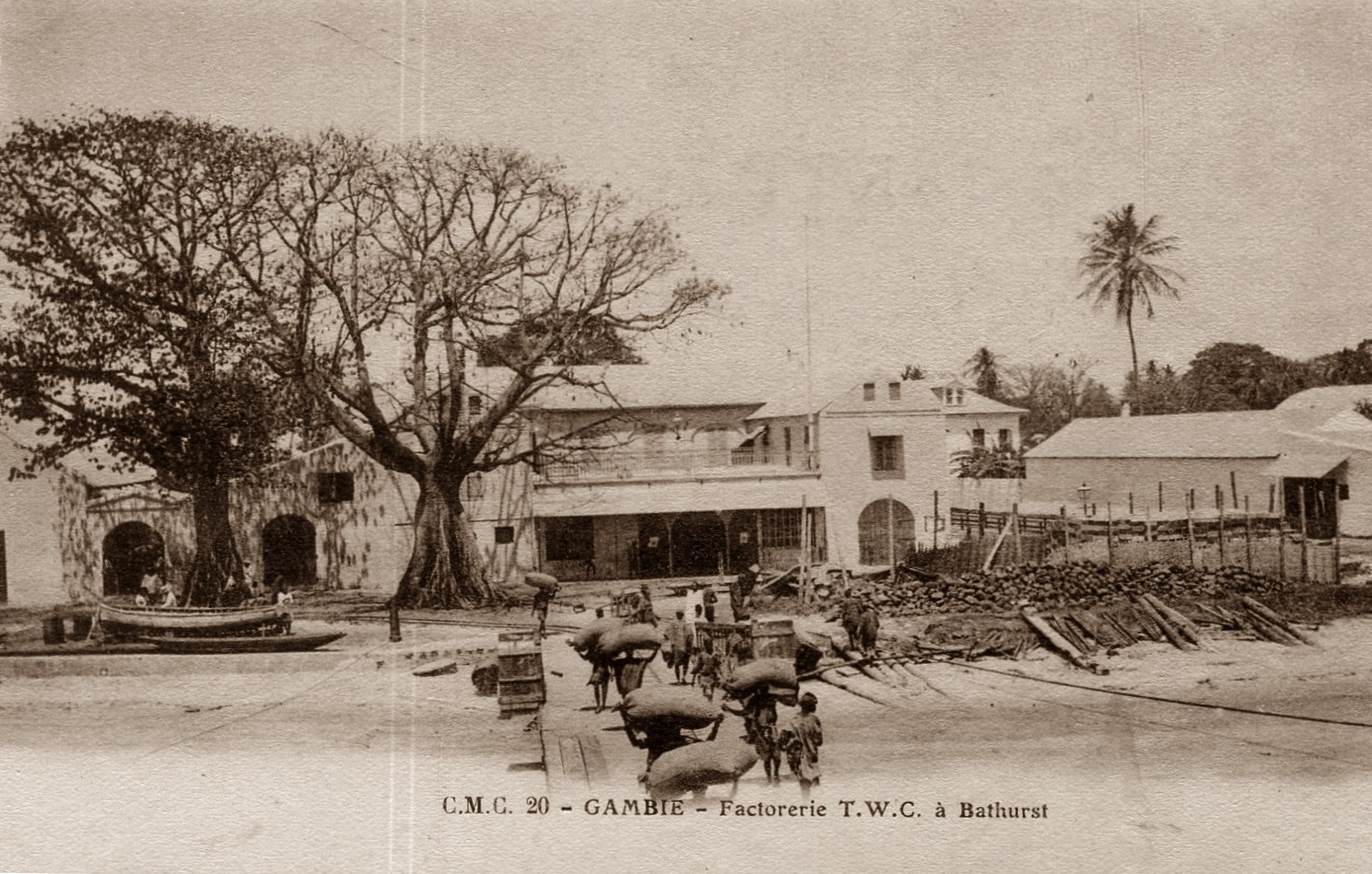 French postcard from around 1900 showing a factory (trading post) at Bathurst, Gambia (West Africa).